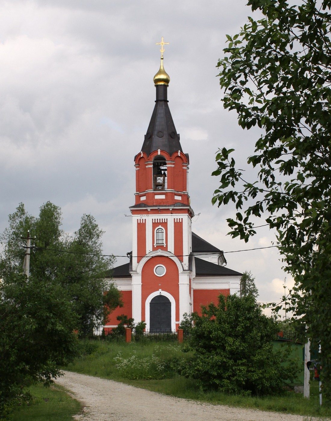 Michail Archangel Church in Mihajlovskoe.